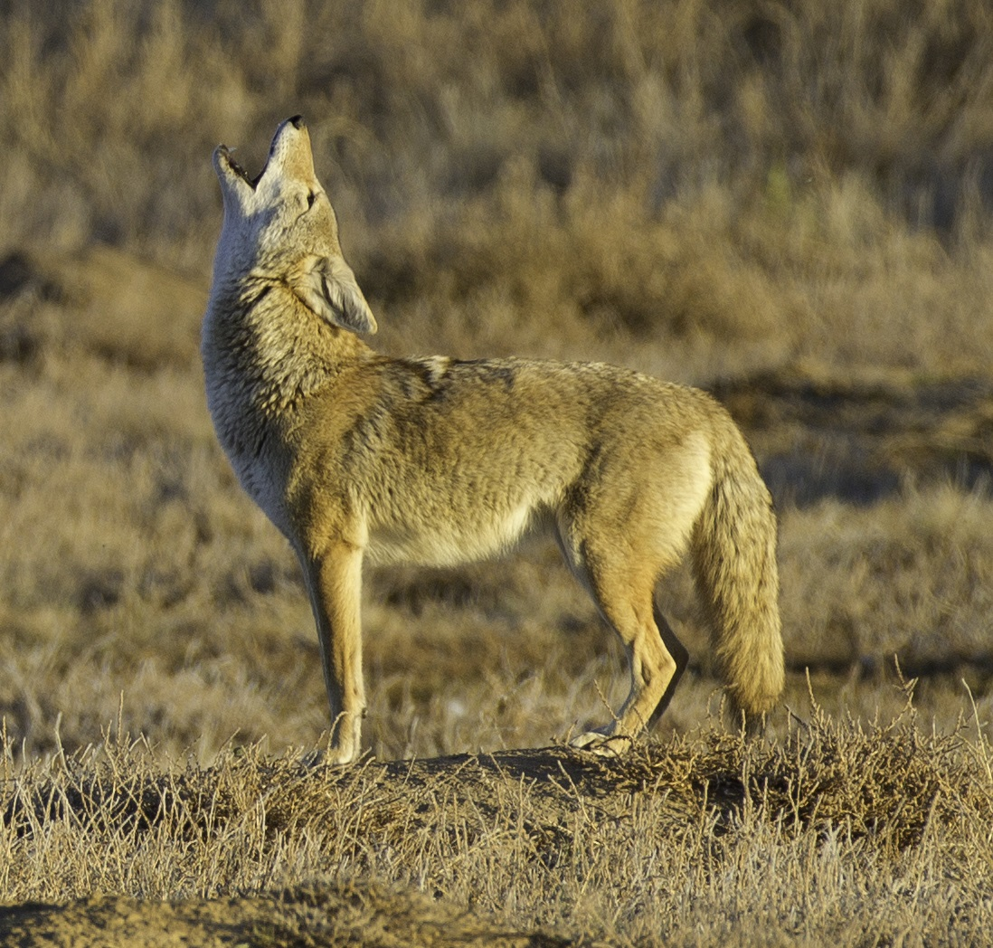 A coyote communicates with other animals at Rocky Mountain Arsenal National Wildlife Refuge by howling. Photo Credit: USFWS